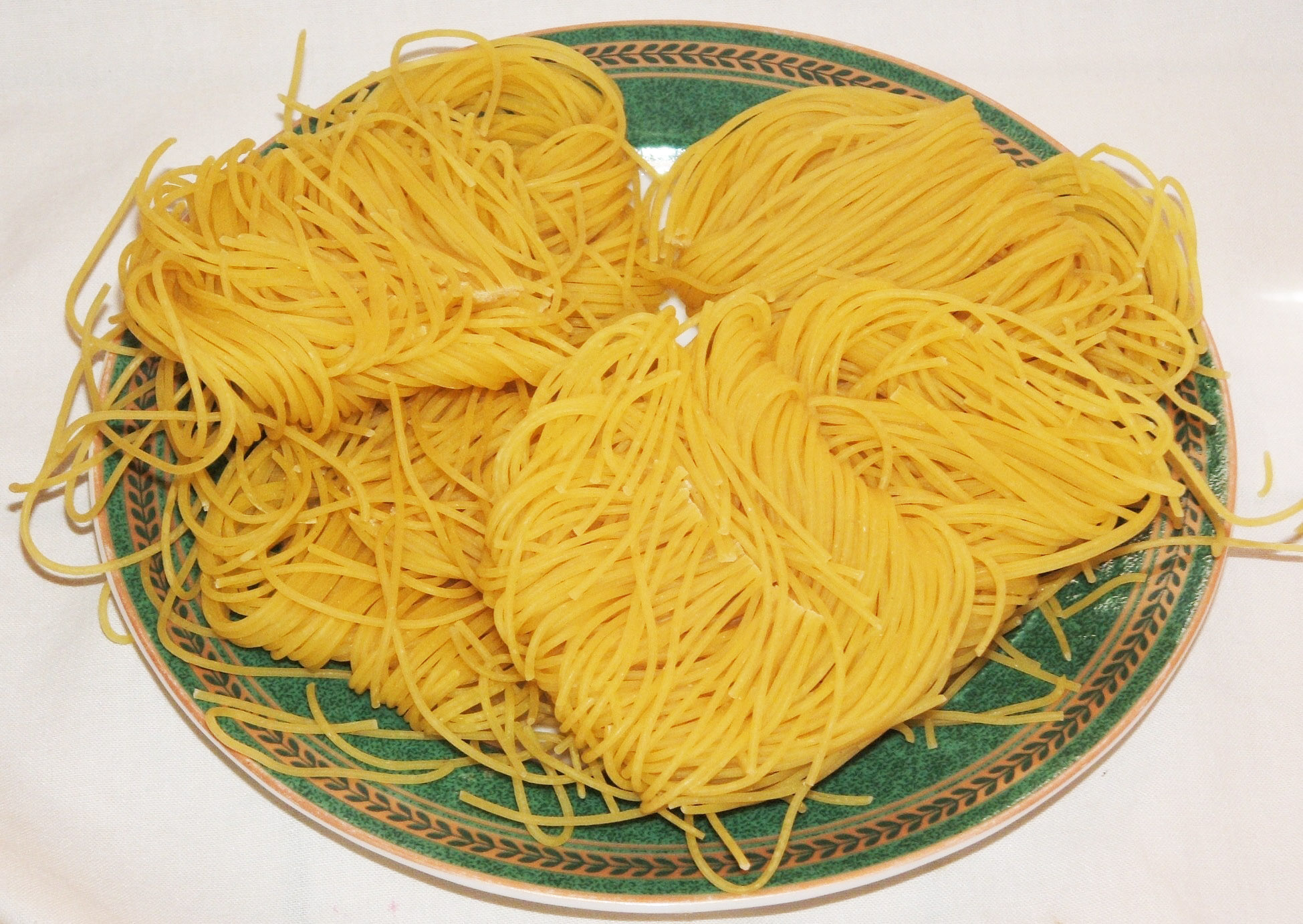 Fideo (coiled vermicelli pasta) - used in Mexican soups